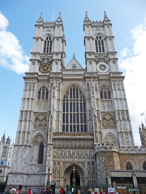 West Side of Westminster Abbey, London Westminster Abbey as seen from the west.